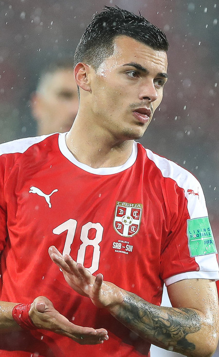 Serbian footballer Nemanja Radonjić on 22 June 2018, after the 2018 FIFA World Cup group stage match between Serbia and Switzerland.